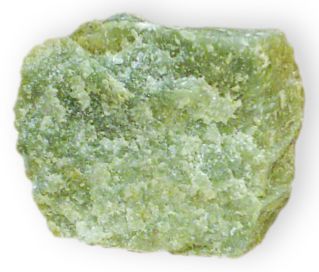 Image of jadeite (also known as sodium aluminum silicate), a pyroxene mineral. This sample was excavated in northern Myanmar.